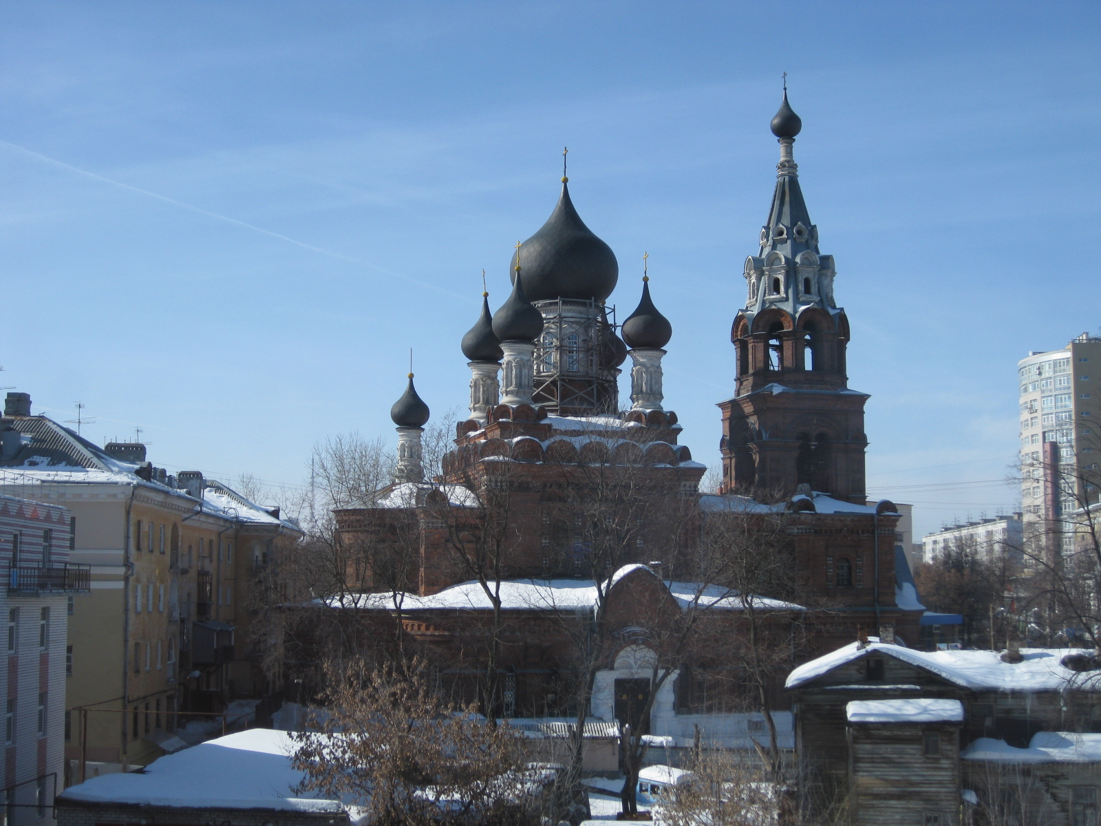 Church of Our Merciful Saviour, 177a Gorky St, Nizhny Novgorod.